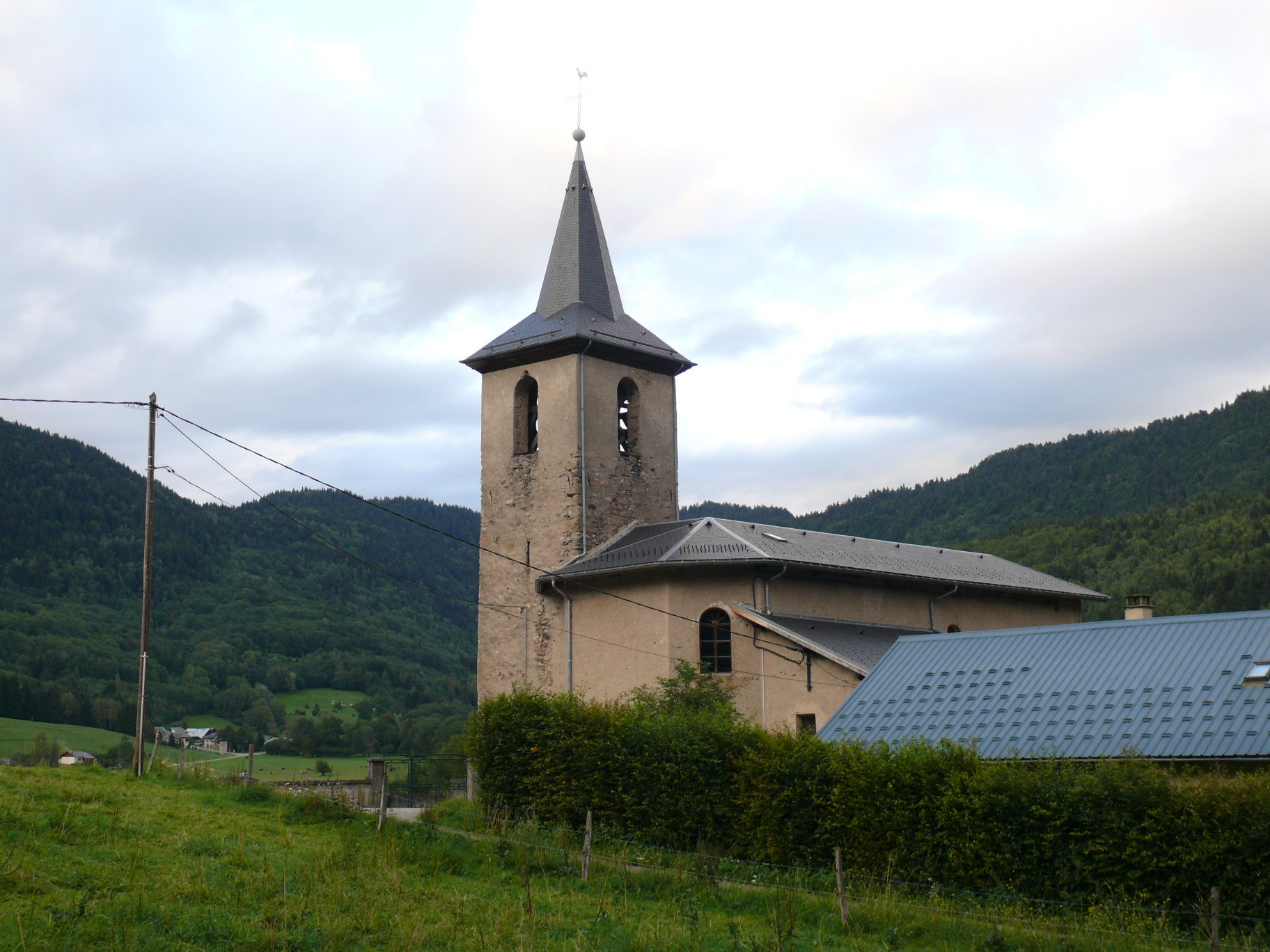 Saint-Nicolas' church of Le Pontet (Savoie, Rhône-Alpes, France).